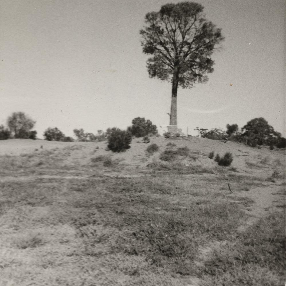 Robbers Tree on the sandhill at Cunnamulla circa 1920